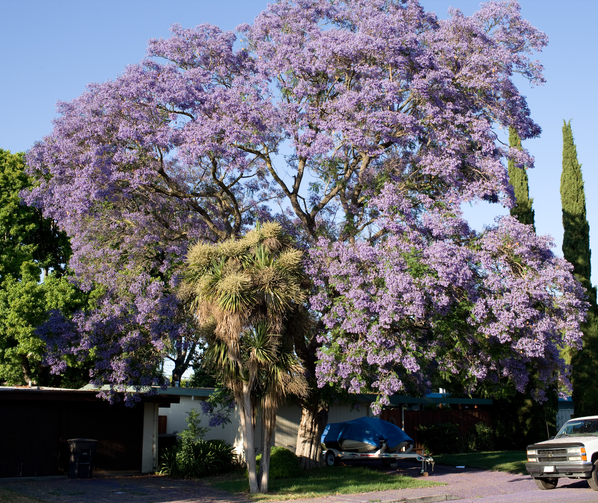 Jacaranda tree in bloom, Mountain View, California, US